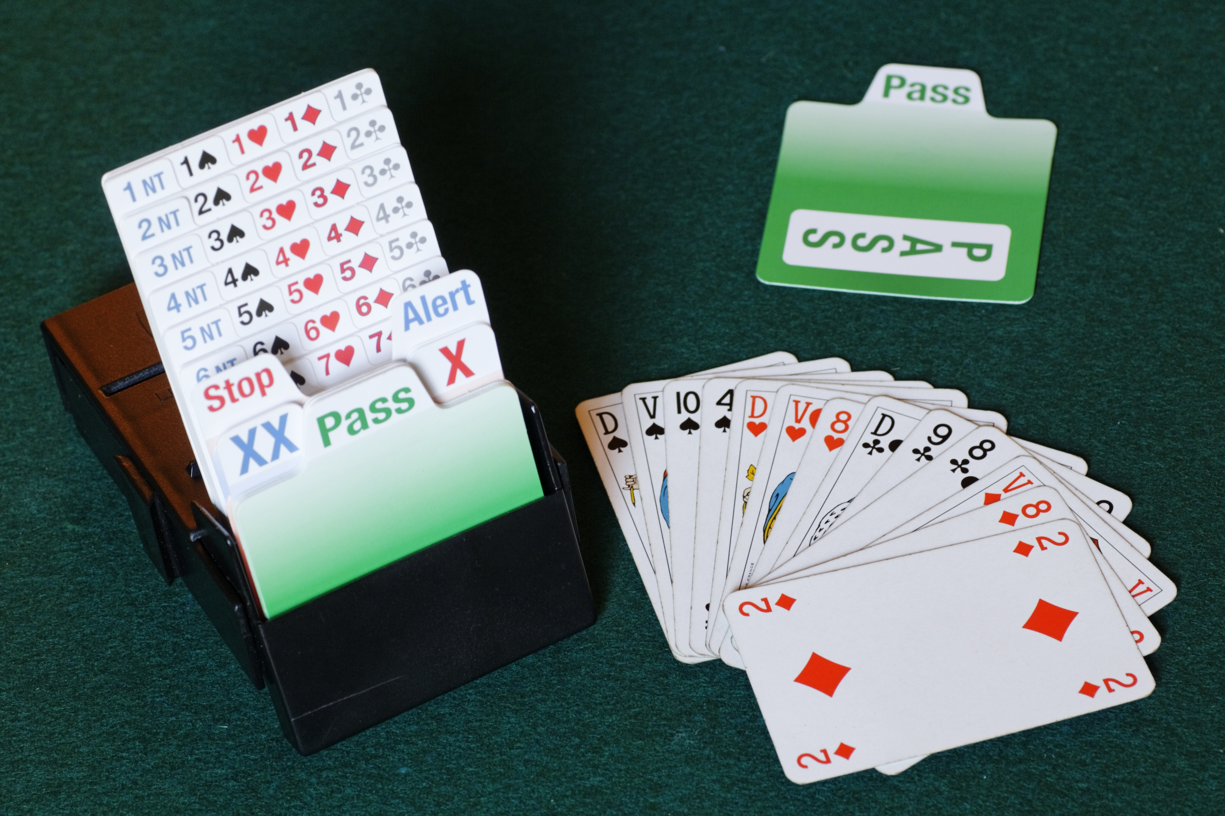 Contract bridge auction: on the left, a bidding box; on the bottom right, the player's hand (Frenck deck of cards); on the top right, the player passes, according to the French 5-card major system.